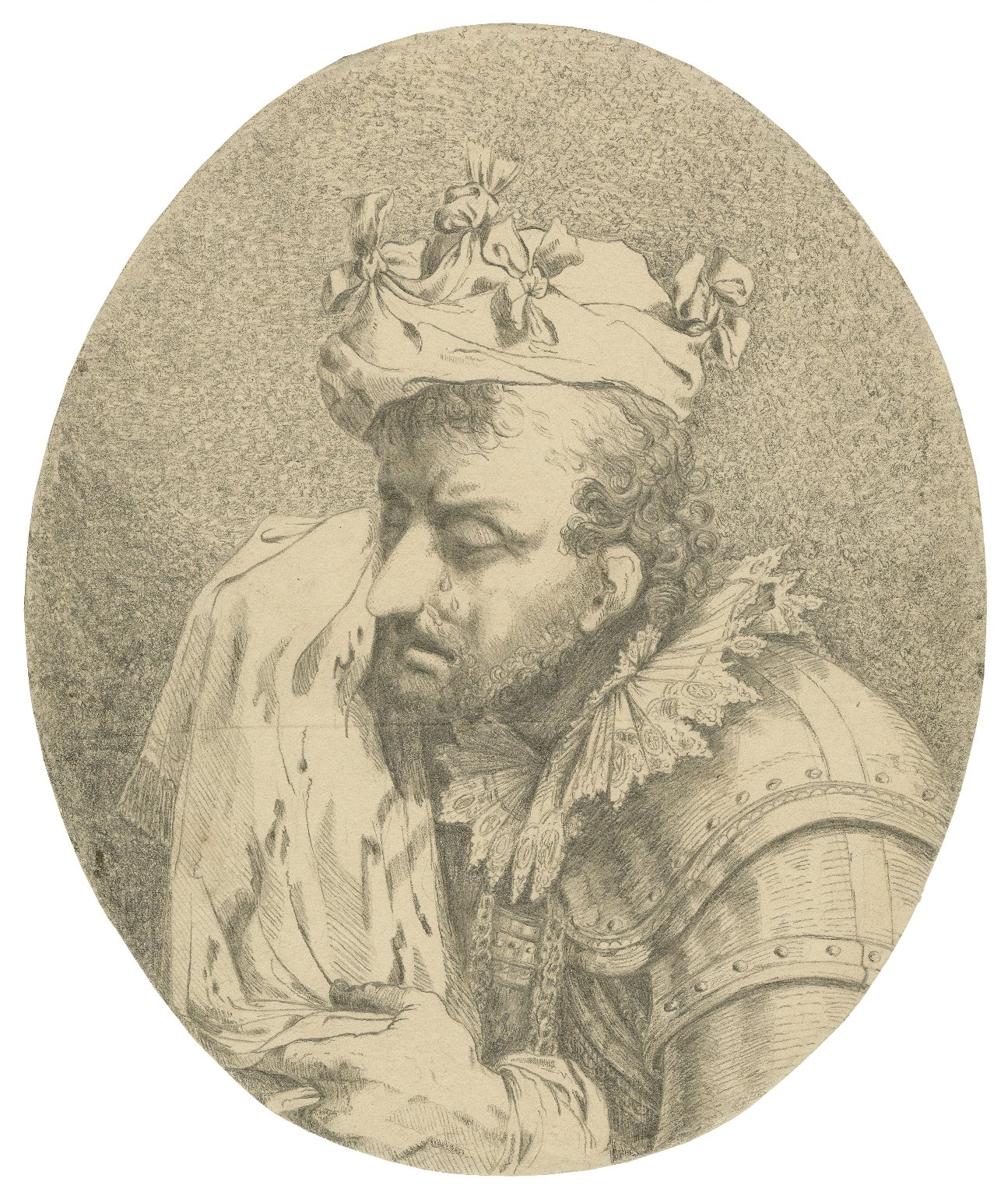 A drawing by John Hamilton Mortimer of Richard Plantagenet, Duke of York from Henry VI, Part 3. York wipes away tears.